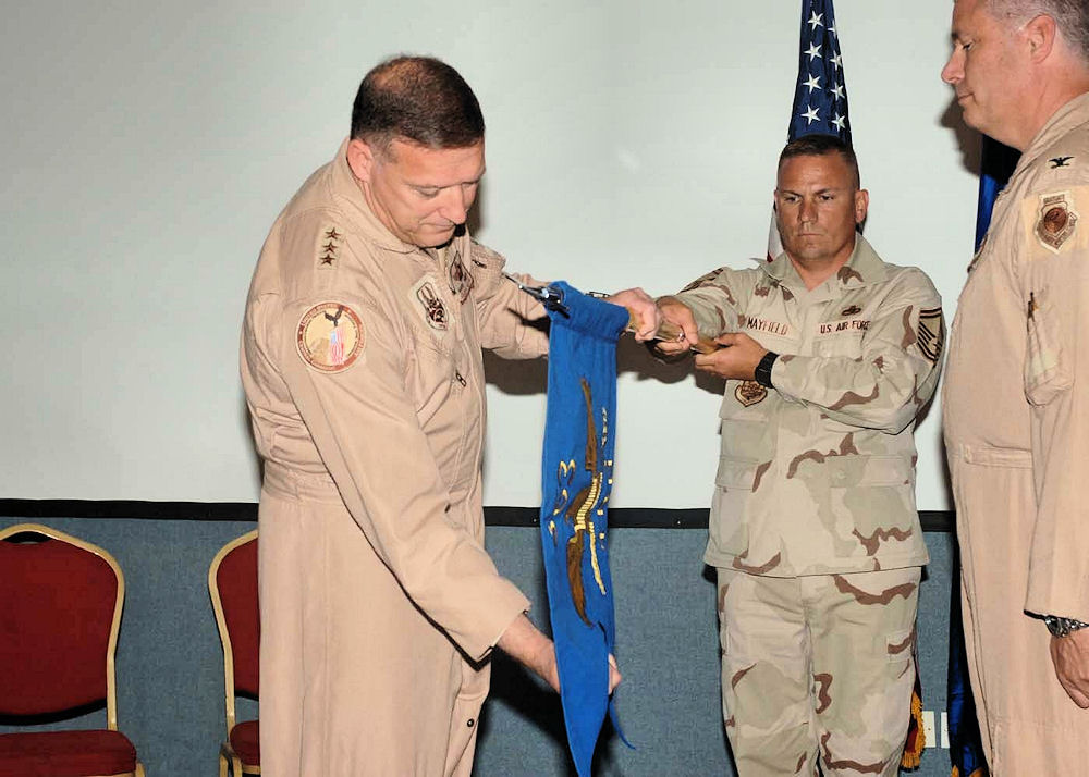 Stand up ceremony for 363d Training Group